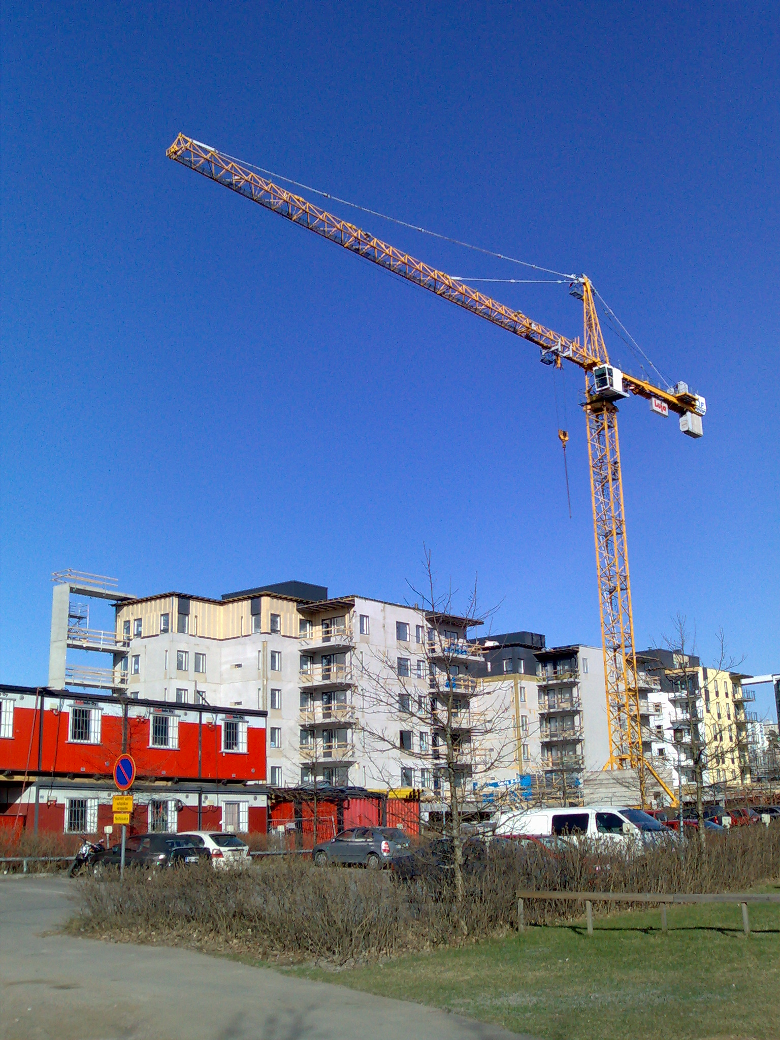 A picture of crain in a construction yard, in Helsinki, Finland.